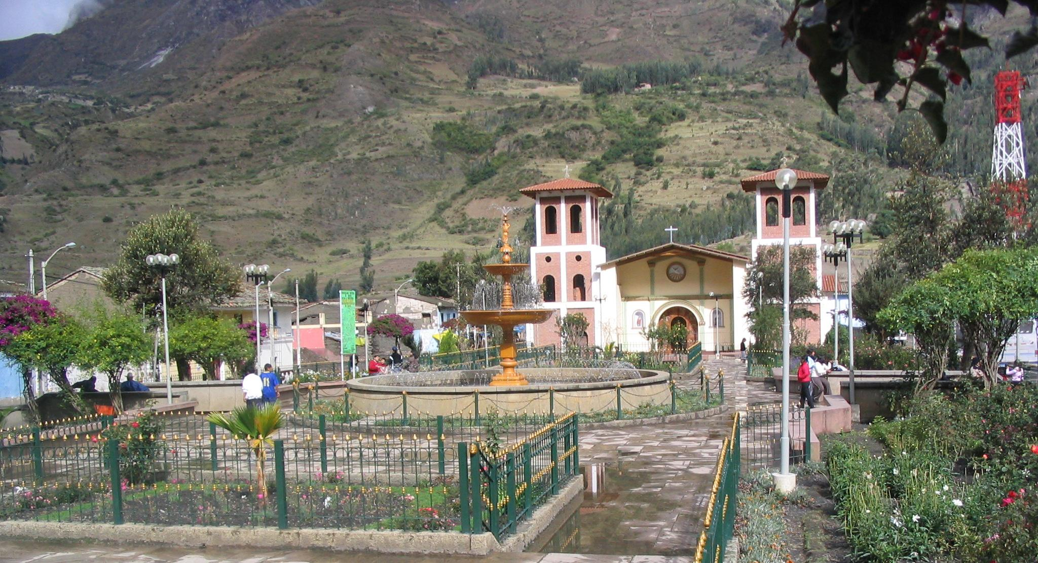 Chavín, town in Ancash (Peru)